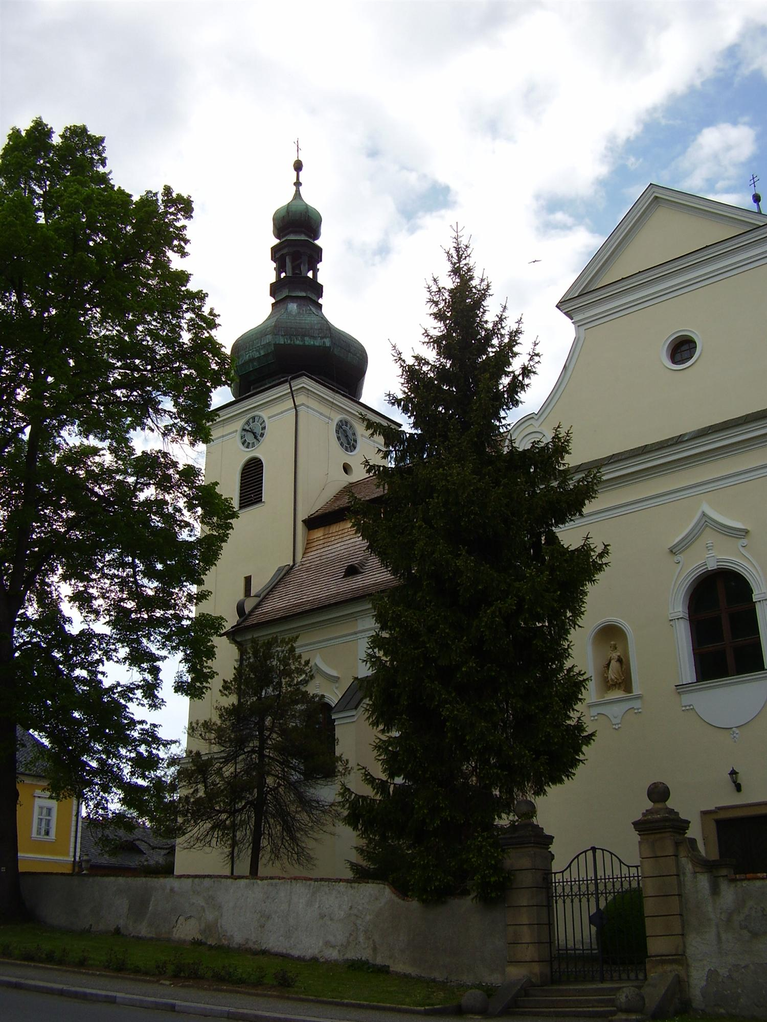 St. Martin church in Buchlovice